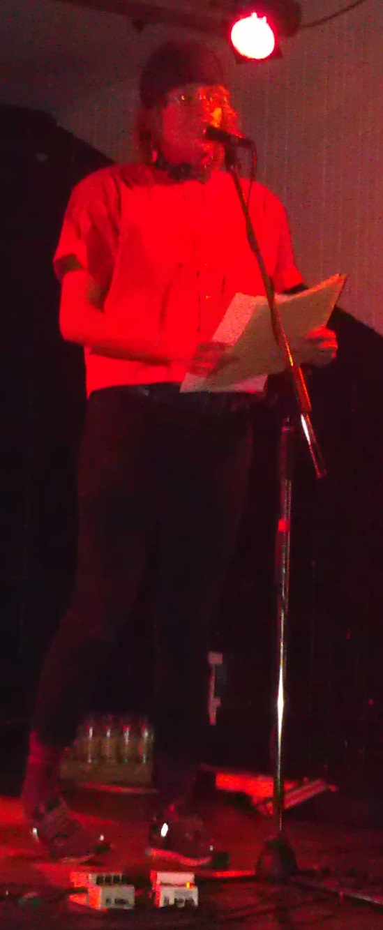 Tanya Davis photographed in Montréal , Québec, Canada at Casa Del Popolo.